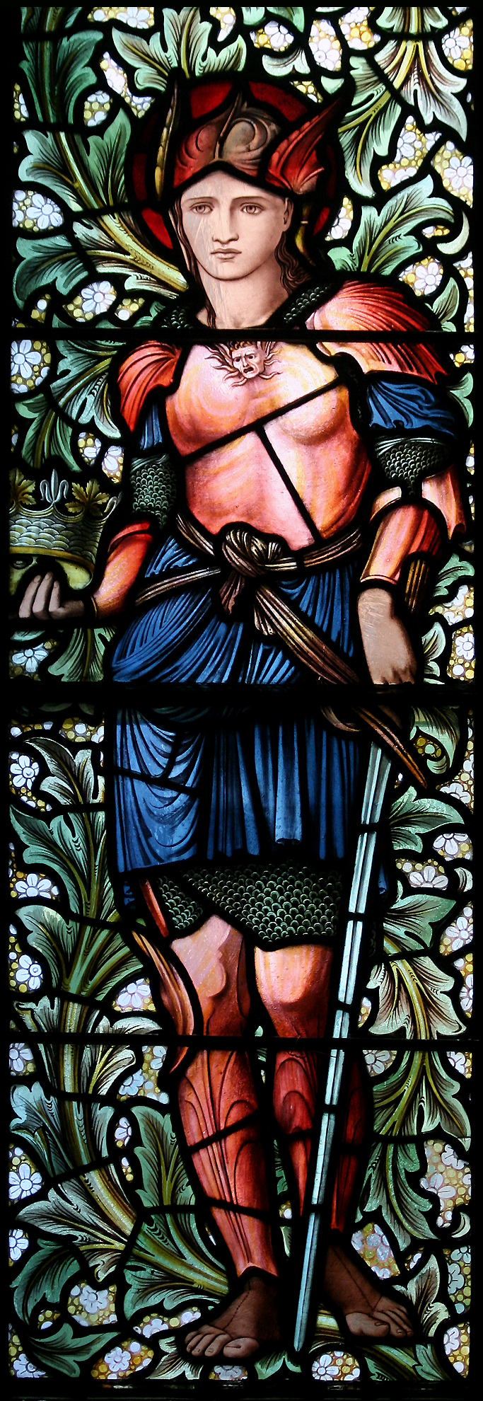 Allegory of Justice. Fragment of stained glass window designed by Edward Burne-Jones and executed by William Morris Co. Installed in St.Paul church Montreal,1902. Current location Montreal, St.Andrew and St.Paul Presbiterian church. Window dedication: To the glory of God and in memory of Andrew Allan 1902